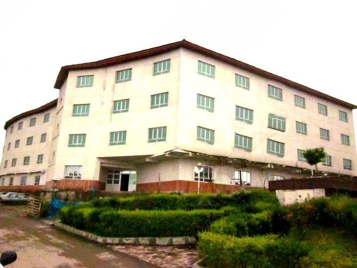 Technology department of Shomal University in AMOL IRAN